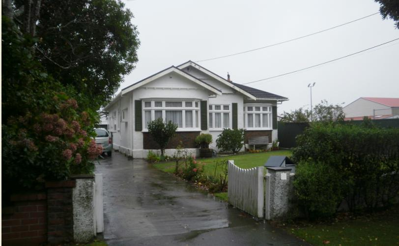 New Zealand Prime Minister Sir Walter Nash's home of 38 years, in Lower Hutt, New Zealand.